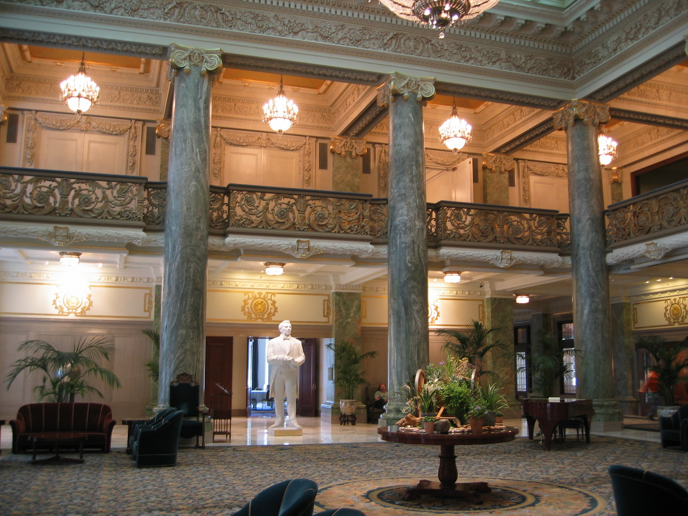 Part of the foyer of the Joseph Smith Memorial Building, Salt Lake City, Utah.